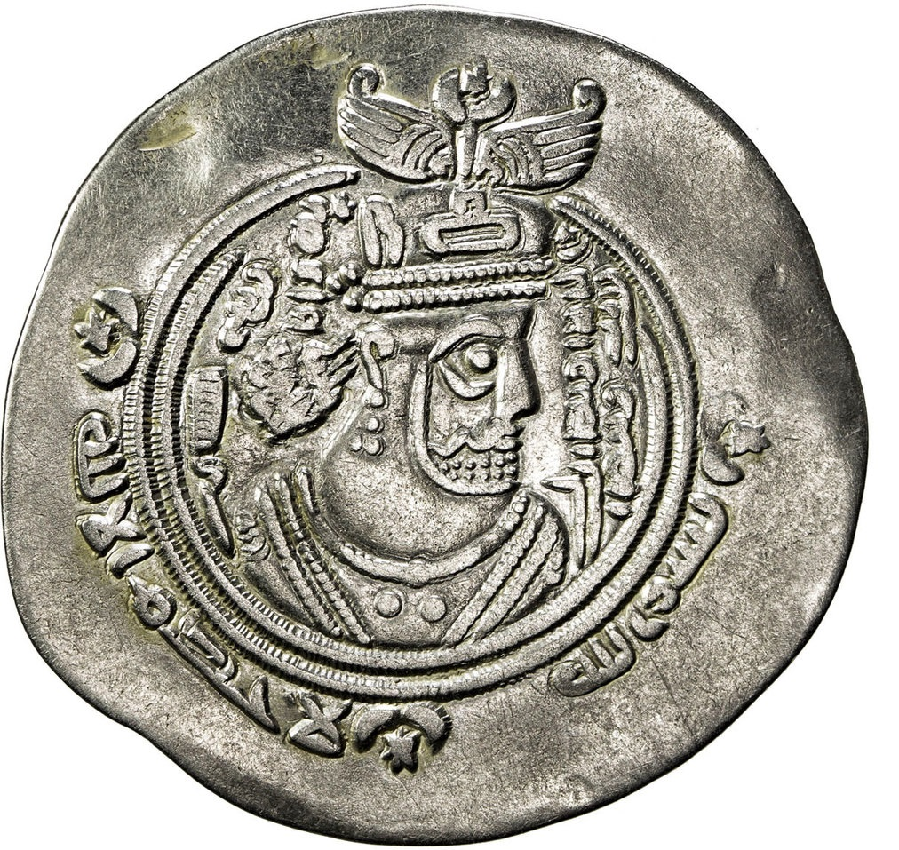 Coin of Qatari in Arab-Sassanian form with kharijits slogan on 3rd Quadrature